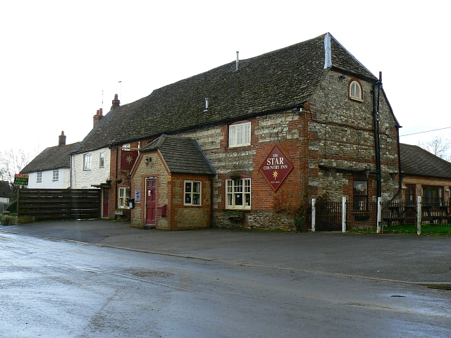 The Star Inn, Sparsholt, Oxfordshire (formerly Berkshire), seen from the southwest